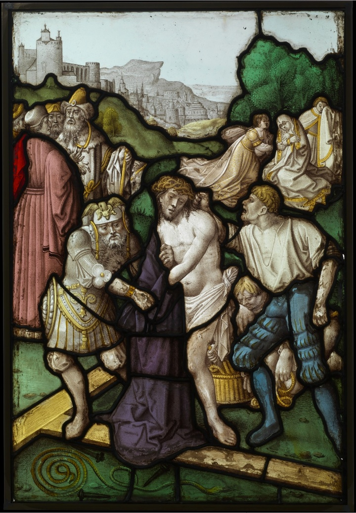 Jan Rombouts, Preparation for the Crucifixion, glass-stained, 68.6 x 47cm, the Metropolitan Museum of Art